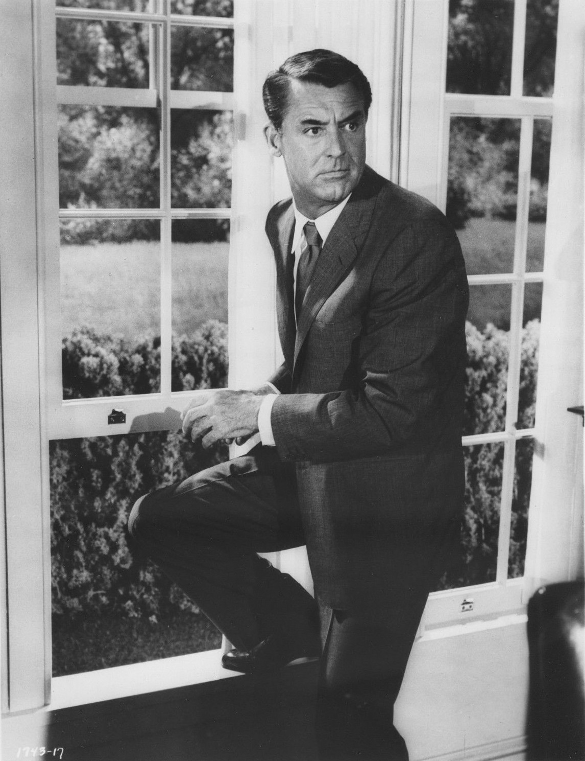 Photo of Cary Grant from the film North by Northwest (1959). See also film still. No copyright notice.